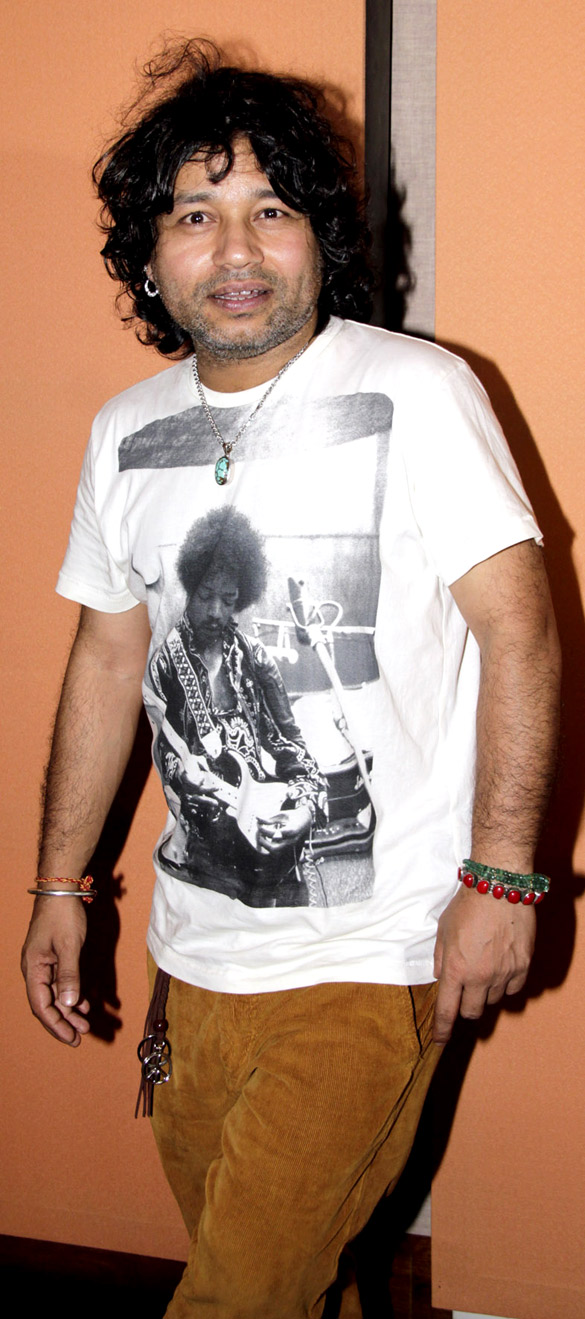 Kailash kher saali khushi